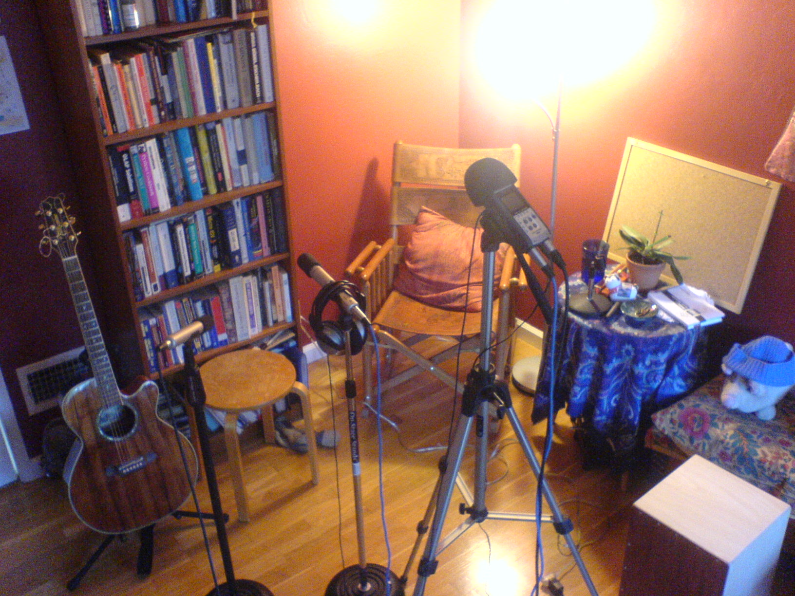 Takamine (Figured Koa model) AKG C1000S condenser microphone AKG C100S condenser microphone Zoom H4n recorder